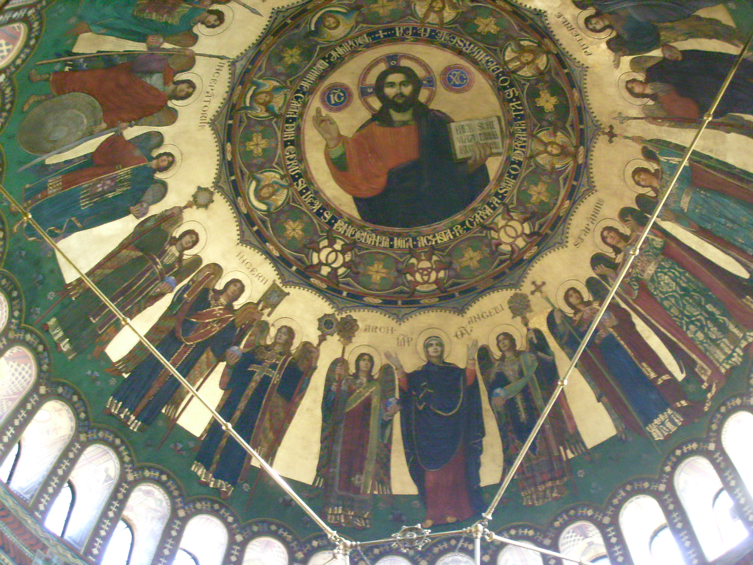 Smigelschis painting in the Orthodox Cathedral of Sibiu.